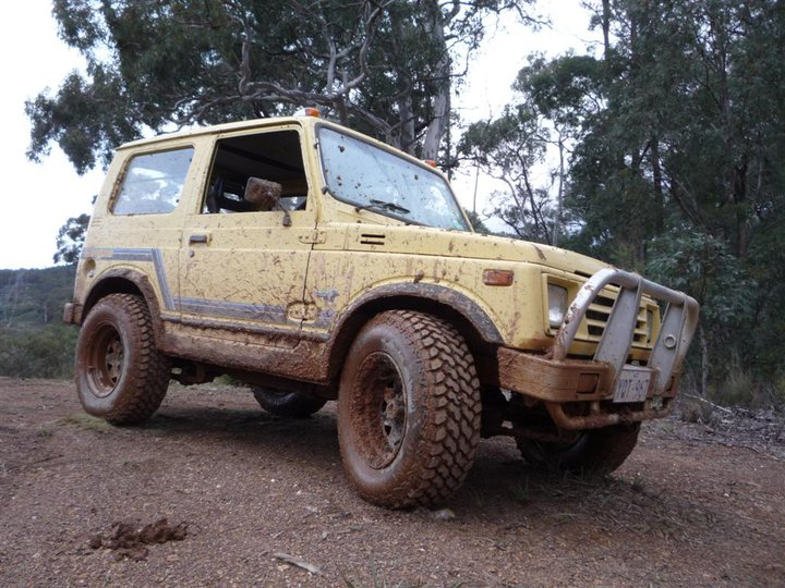 1985–1986 Holden Drover (QB) hardtop, photographed in Australia.